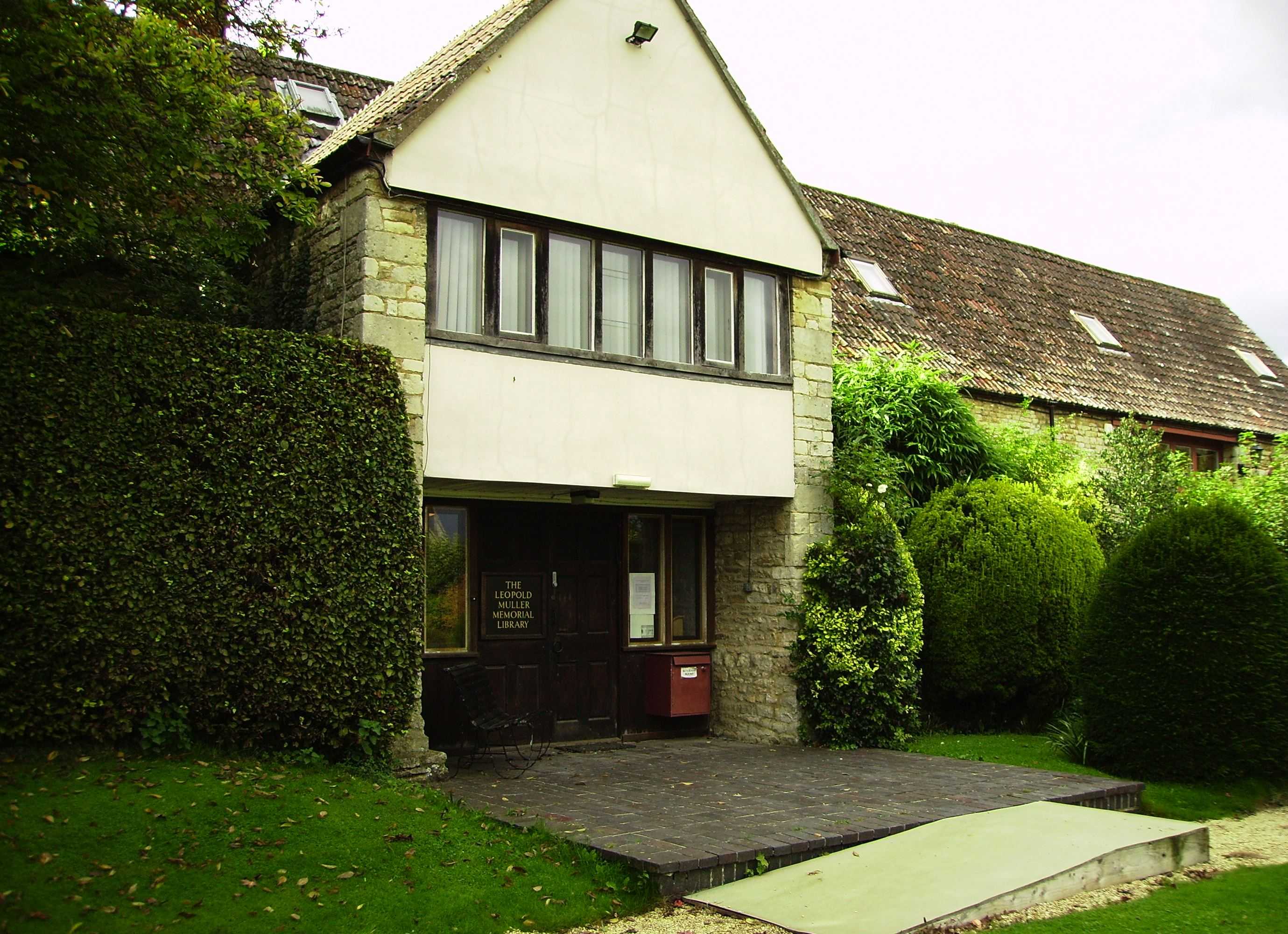 Former Leopold Muller Memorial Library.